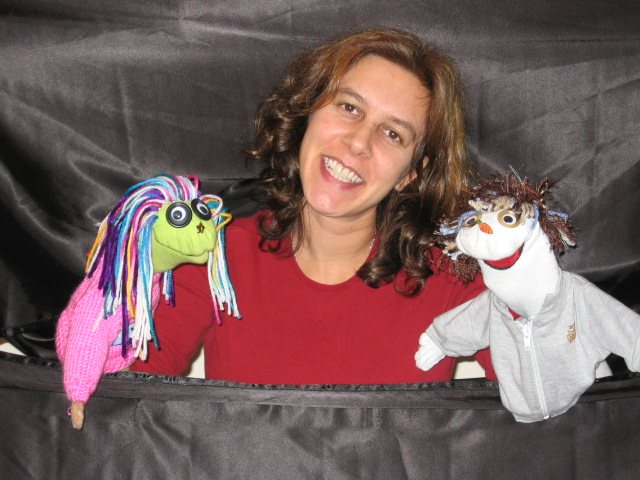 Marla Jill Rosen photo shoot